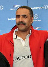 Daley Thompson during the 2007 Laureus day at Ham Polo Club, London.